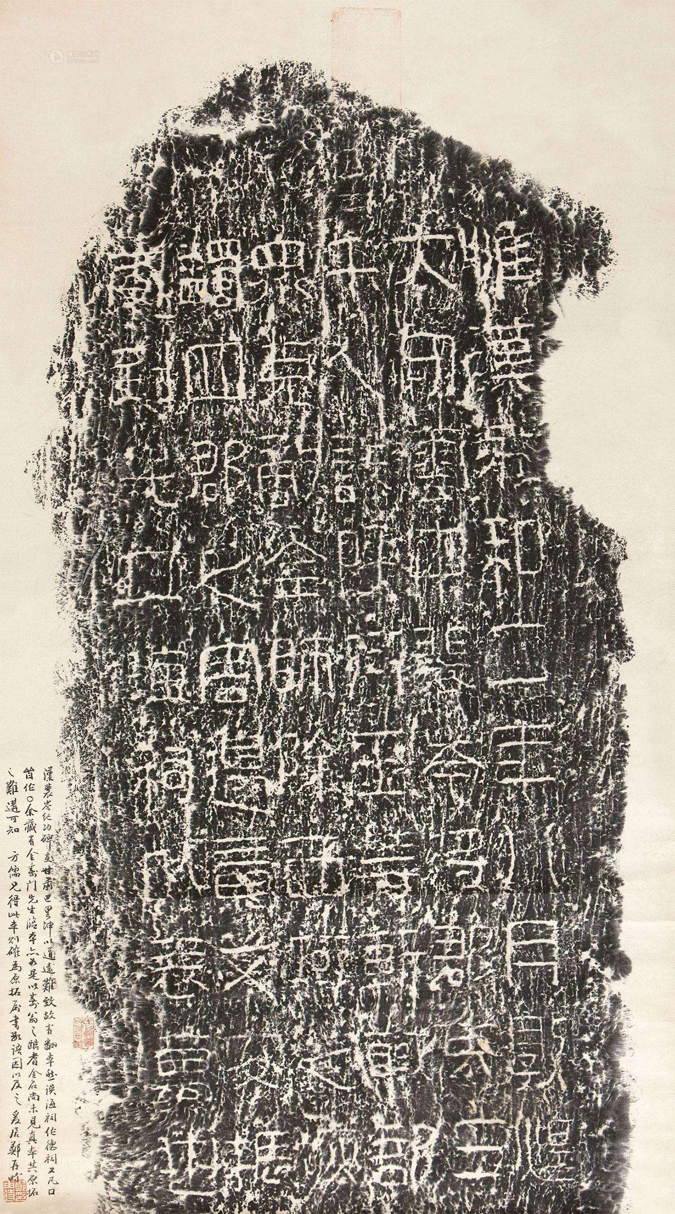 Rubbing of the Stele of Peicen. The stele has been there for more than 1800 years, since the Eastern Han dynasty.